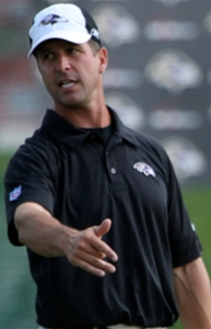 A picture of John Harbaugh.